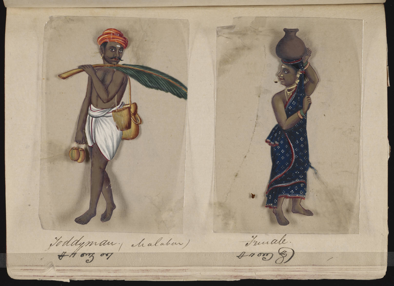 A page from the manuscript Seventy-two Specimens of Castes in India, which consists of 72 full-color hand-painted images of men and women of the various castes and religious and ethnic groups found in Madura, India at that time. Each drawing was made on mica, a transparent, flaky mineral which splits into thin, transparent sheets. As indicated on the presentation page, the album was compiled by the Indian writing master at an English school established by American missionaries in Madura, and given to the Reverend William Twining. The manuscript shows Indian dress and jewelry adornment in the Madura region as they appeared before the onset of Western influences on South Asian dress and style. Each illustrated portrait is captioned in English and in Tamil, and the title page of the work includes English, Tamil, and Telugu.